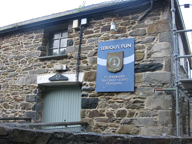 Home of the Sea Cadet Corps, Fishguard. Serious Fun. The building was formerly a warehouse by the old harbour. See 1497734 to see the entire building.